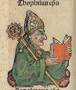 Detail from the Nuremberg Chronicle, showing Theophilus of Antioch